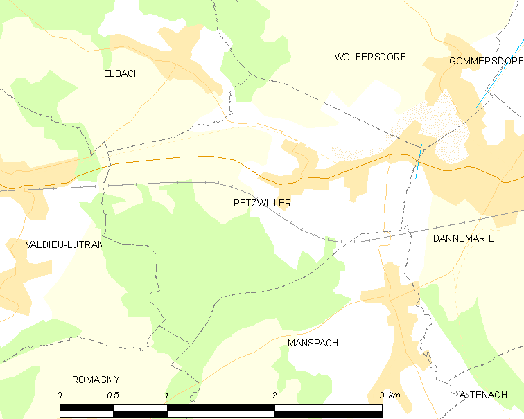 Map of French municipality